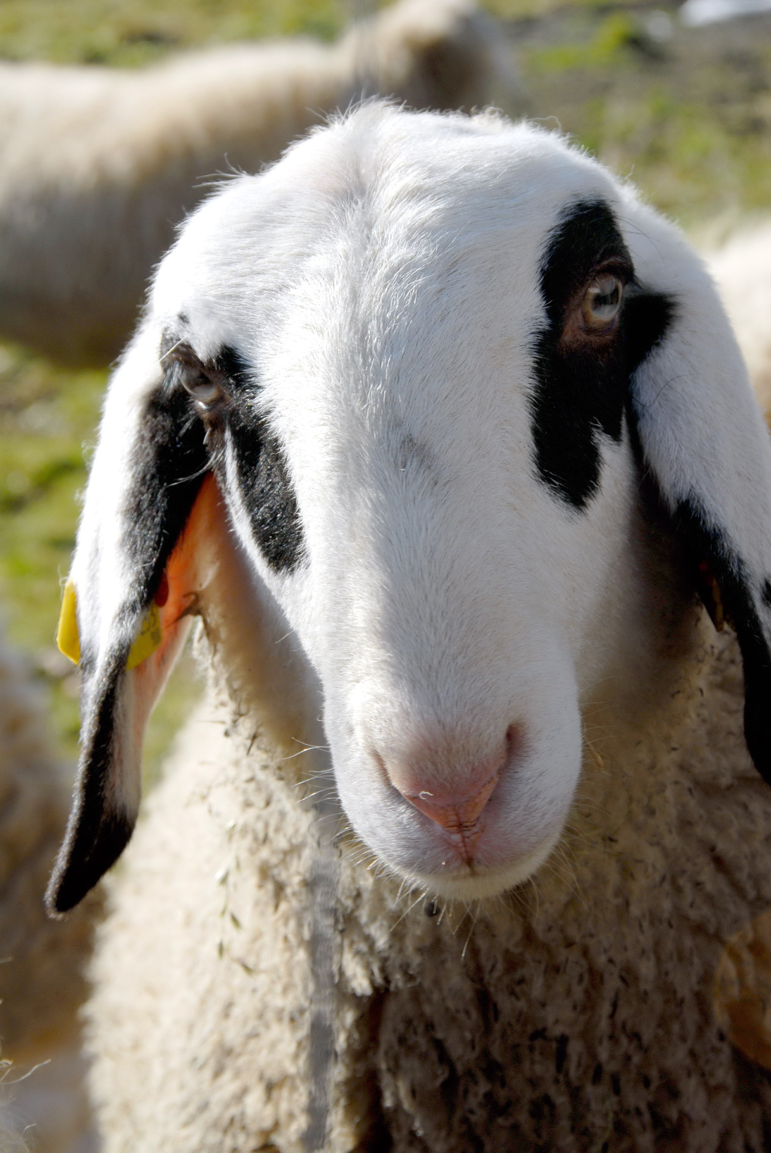 Jezersko–Solčava, municipality Pörtschach am Wörther See, district Klagenfurt Land, Carinthia, Austria, EU